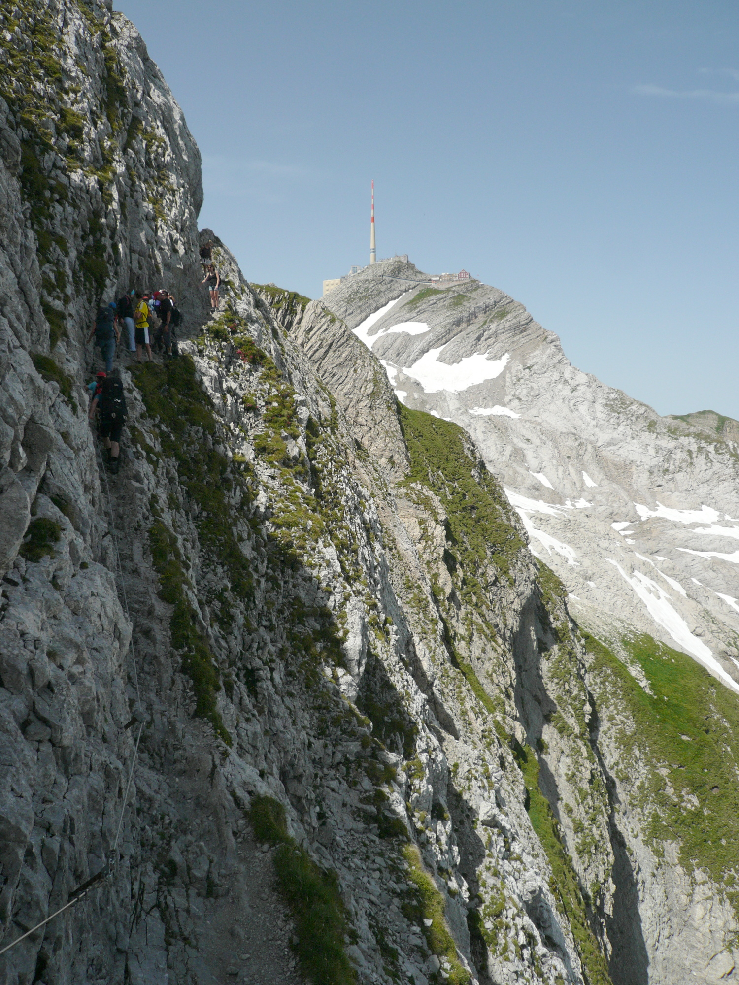 Lisengrat in Alpstein mountains, Switzerland